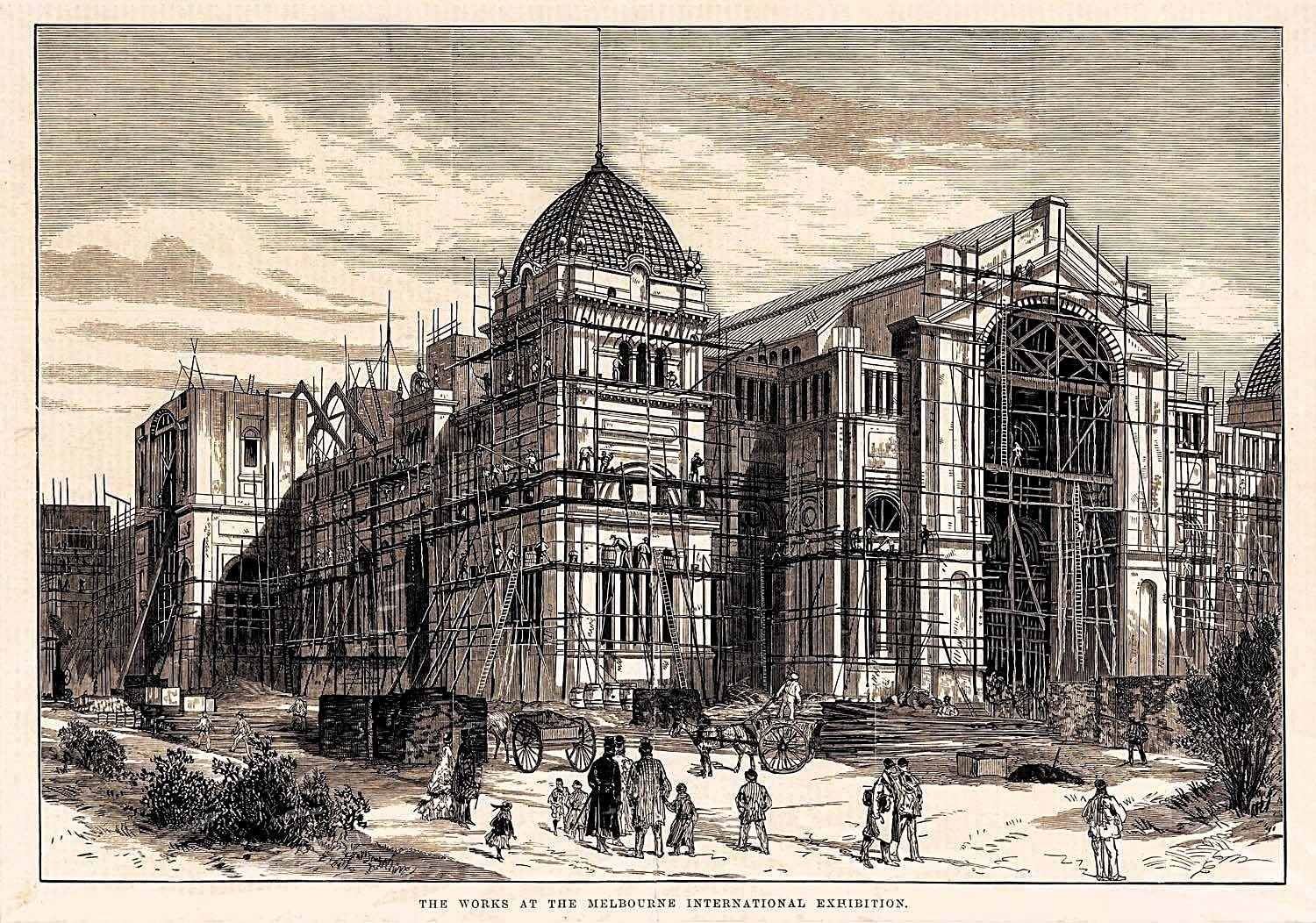 ENGRAVINGS, from 'The Australasian Sketcher', comprisng - 8 June 1878 "Prize Design for the Melbourne International Exhibition Building"; 30 Aug.1879 "The Works at the Melbourne International Exhibition" showing the building under construction. Both window mounted, various sizes; the first, hand-coloured.